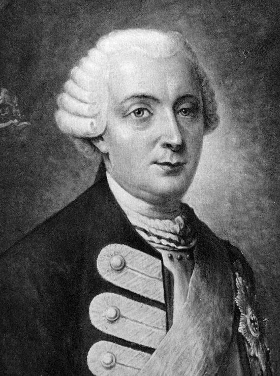 Black and whote photo of oil portrait circa 1758 of Lieutenant General Friedrich Quirin von Forcade de Biaix